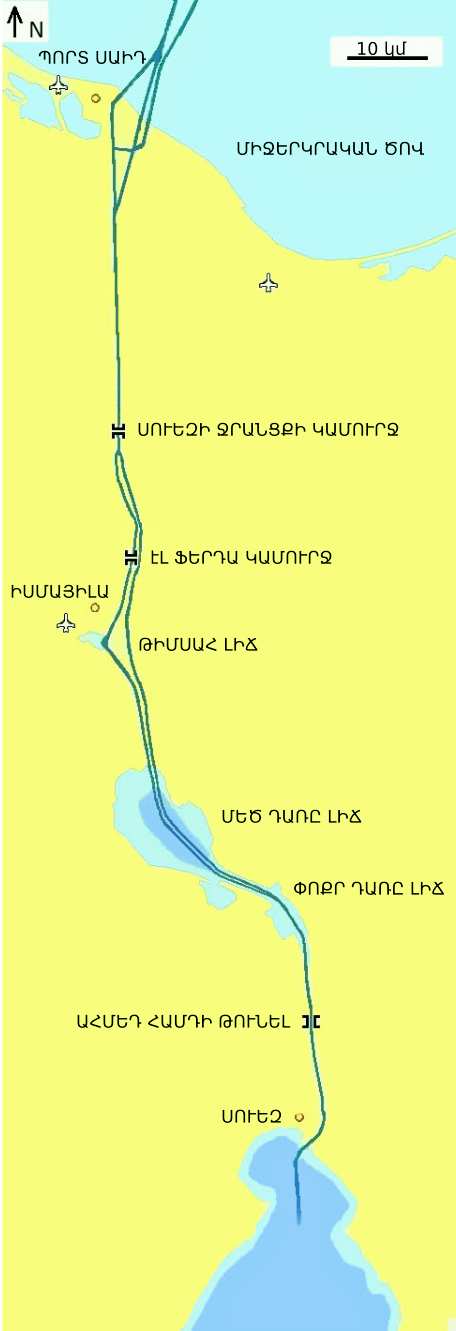 Suez canal map